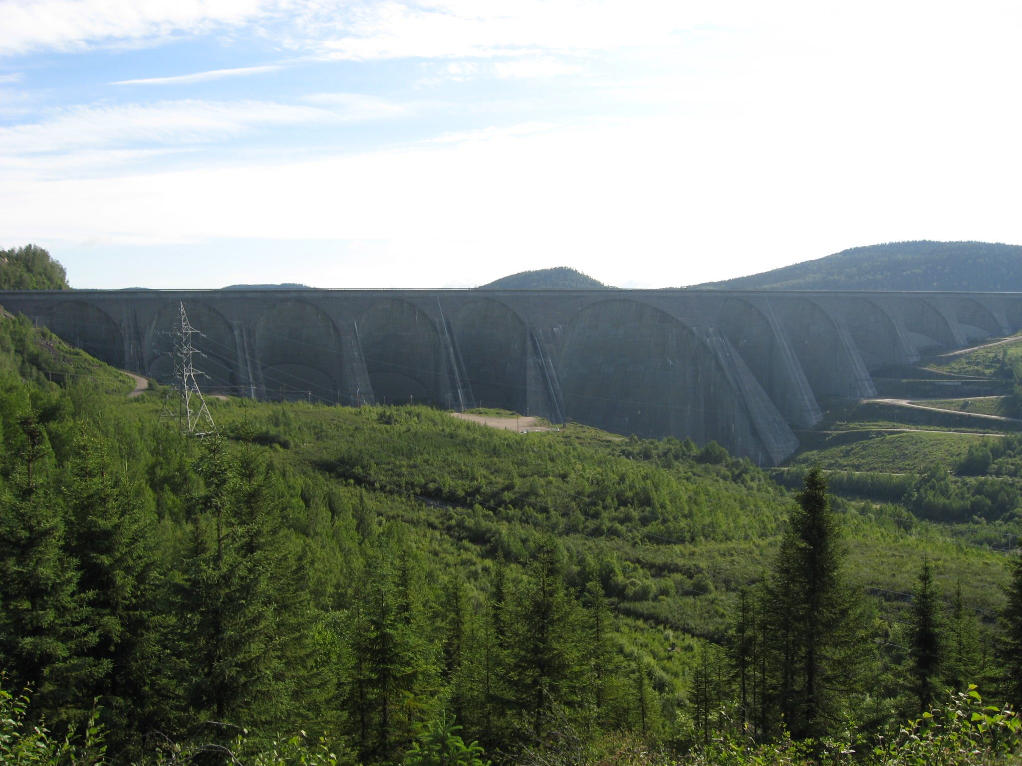 The Daniel-Johnson Dam in Québec, Canada.